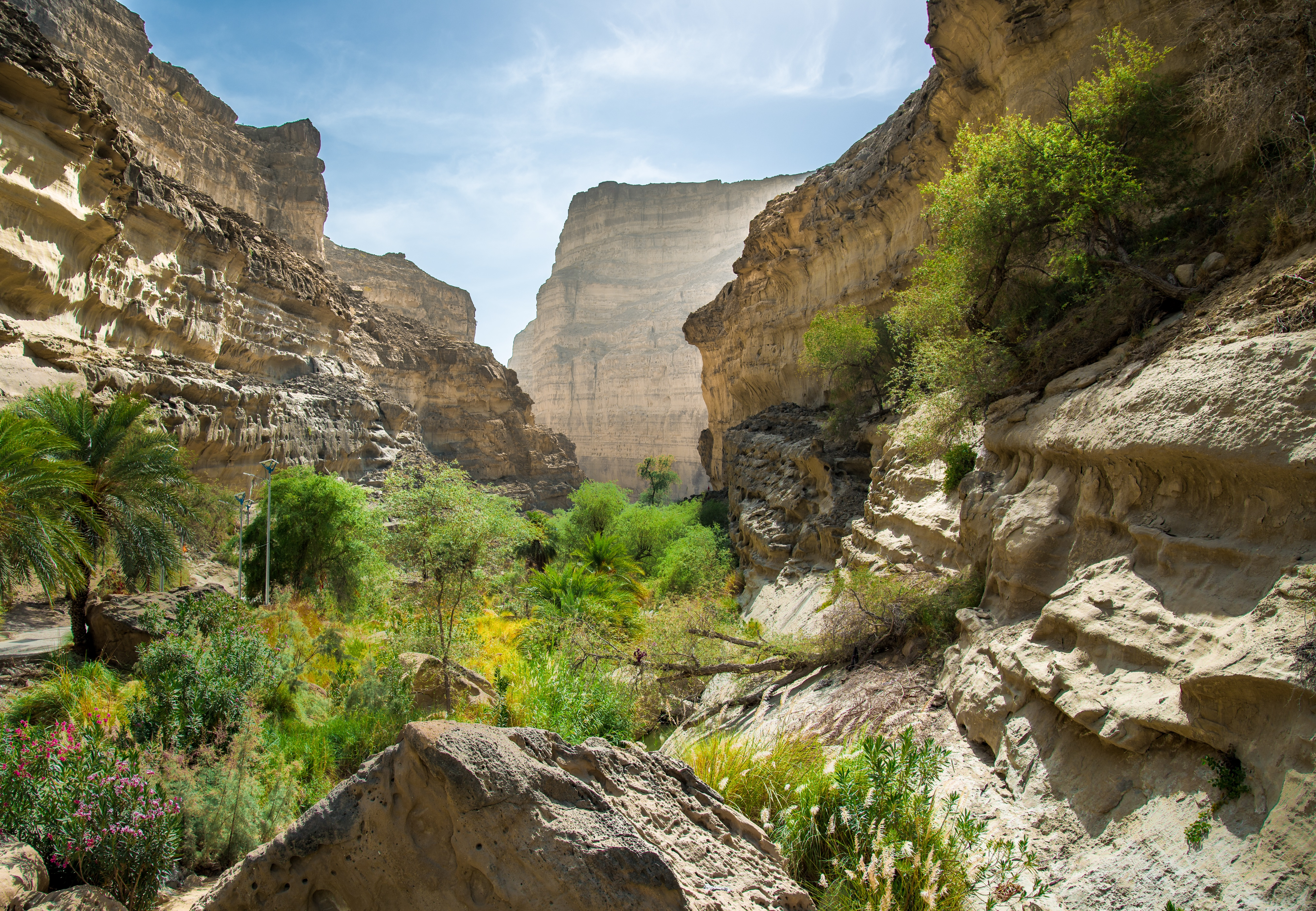 Hinglaj Mata, also known as Hinglaj Devi and Nani Mandir, is a Hindu temple in Hinglaj, a town on the Makran coast in the Lasbela district of Balochistan, Pakistan.